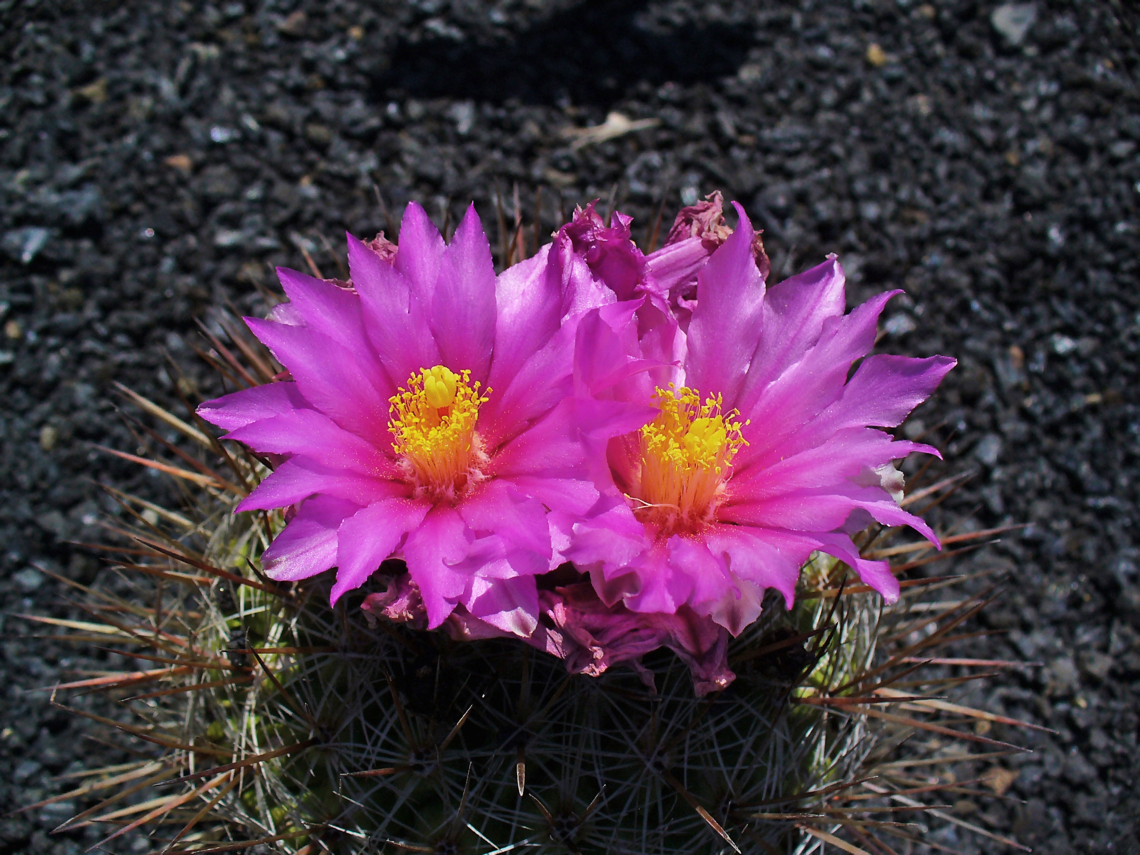 Flowers; Jardin de Cactus, Guatiza, Lanzarote, Canary Islands, Spain. According to the IUCN red list Thelocactus conothelos argenteus is critically endangered, majot threat is illegal collecting (see [1]).